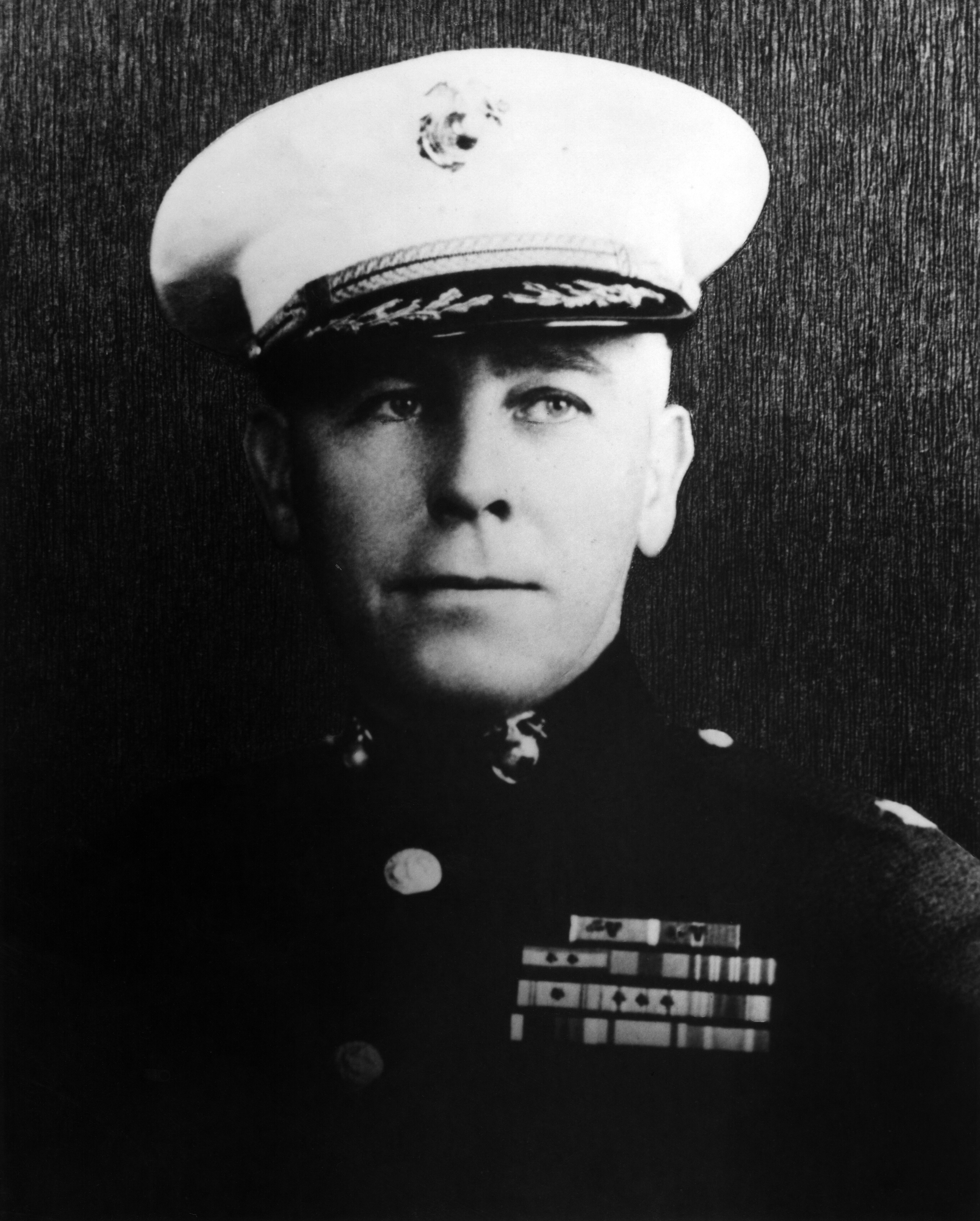 Richard Potts Ross Jr. (March 18, 1906 - October 6, 1990) was a highly decorated officer of the United States Marine Corps with the rank of Brigadier General. He is most noted for his service with 1st Marine Division during Battle of Okinawa and later during the Occupation of North China.